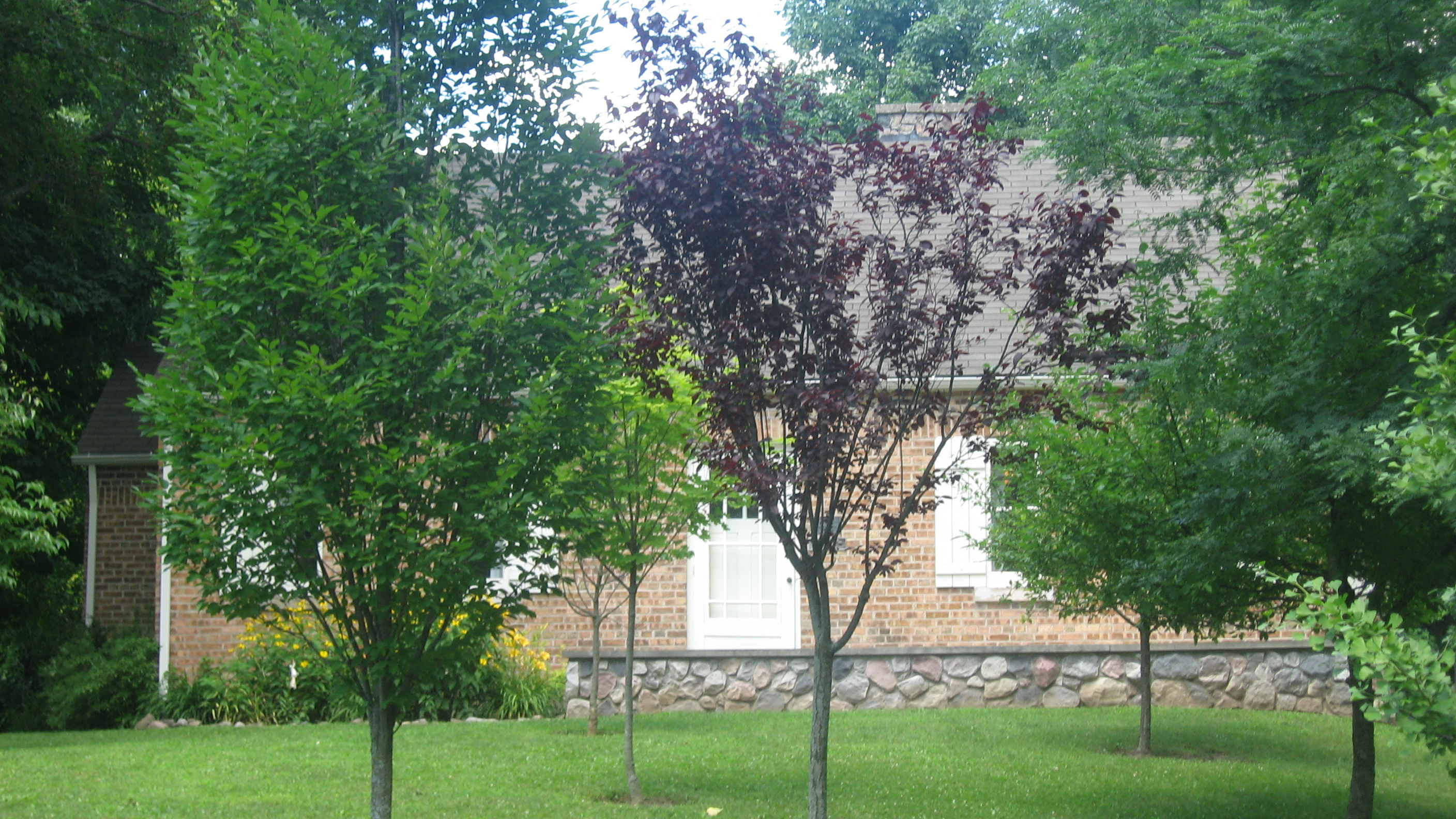 Front of the Mishawaka Reservoir Caretaker's Residence, located at 16581 Chandler Boulevard south of Mishawaka in Penn Township, St. Joseph County, Indiana, United States. Built in 1938 by the Works Progress Administration, it is listed on the National Register of Historic Places.